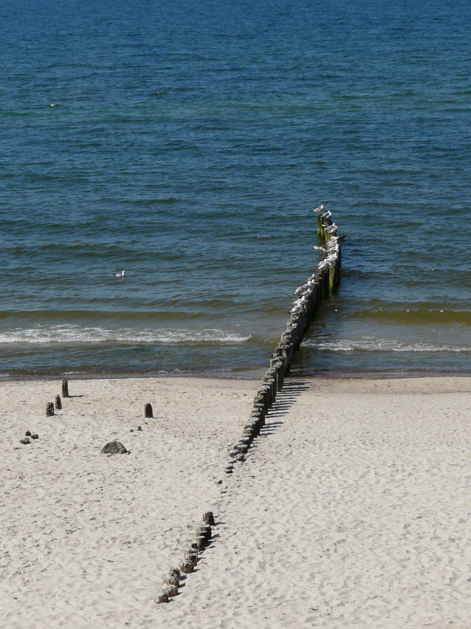 Animals at Polish Baltic coast, mostly near Niechorze.